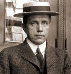 Harry Kendall Thaw circa 1905